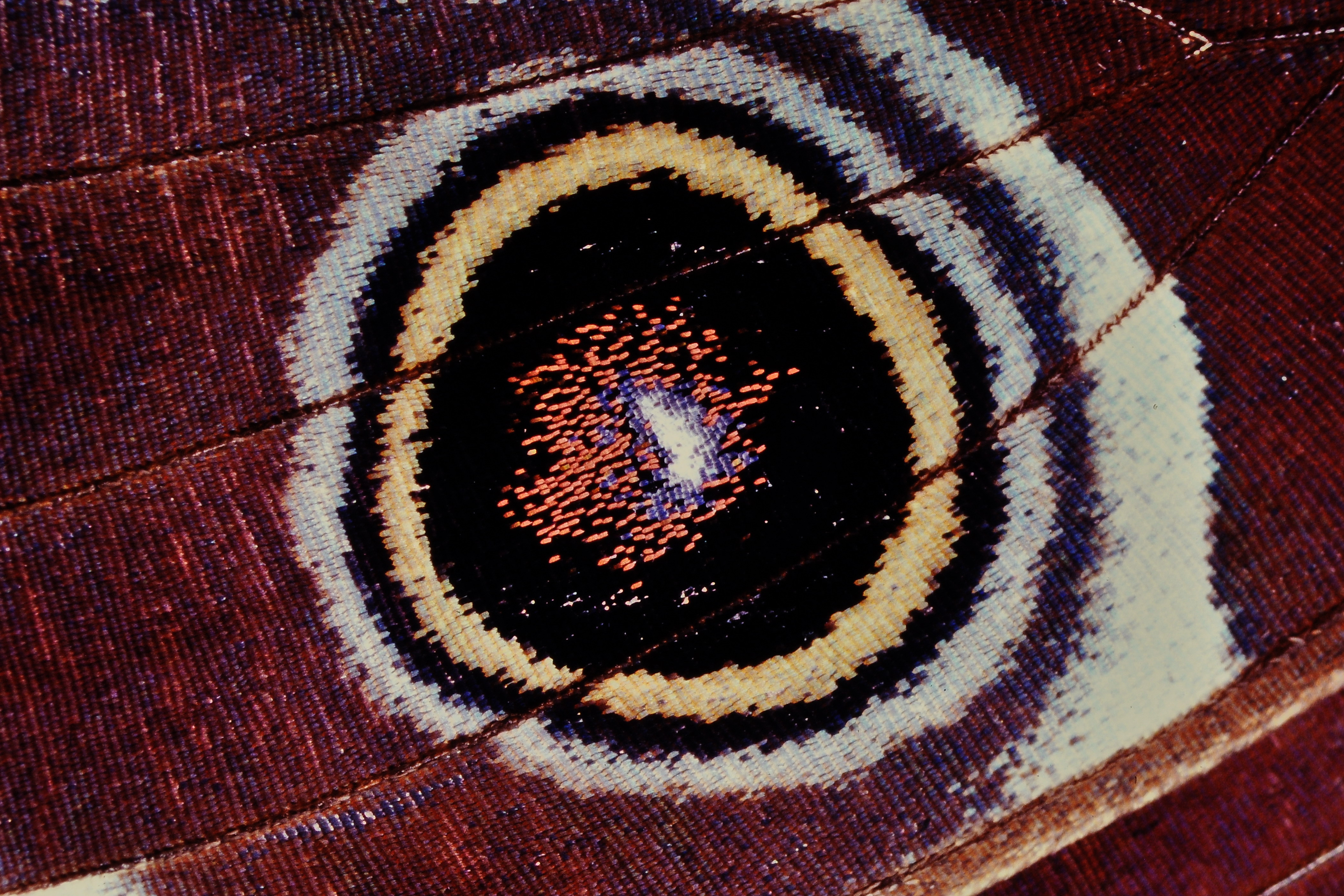 Wing of a butterfly, detail. Freehand snapshot of a living insect with NIKON F4 and NIKON macrolens 1:2,8/105mm working at step 8-11, Kodak slidefilm 100 ASA, JPG-converted with NIKON D90 and NIKON macrolens 1:2,8/60mm